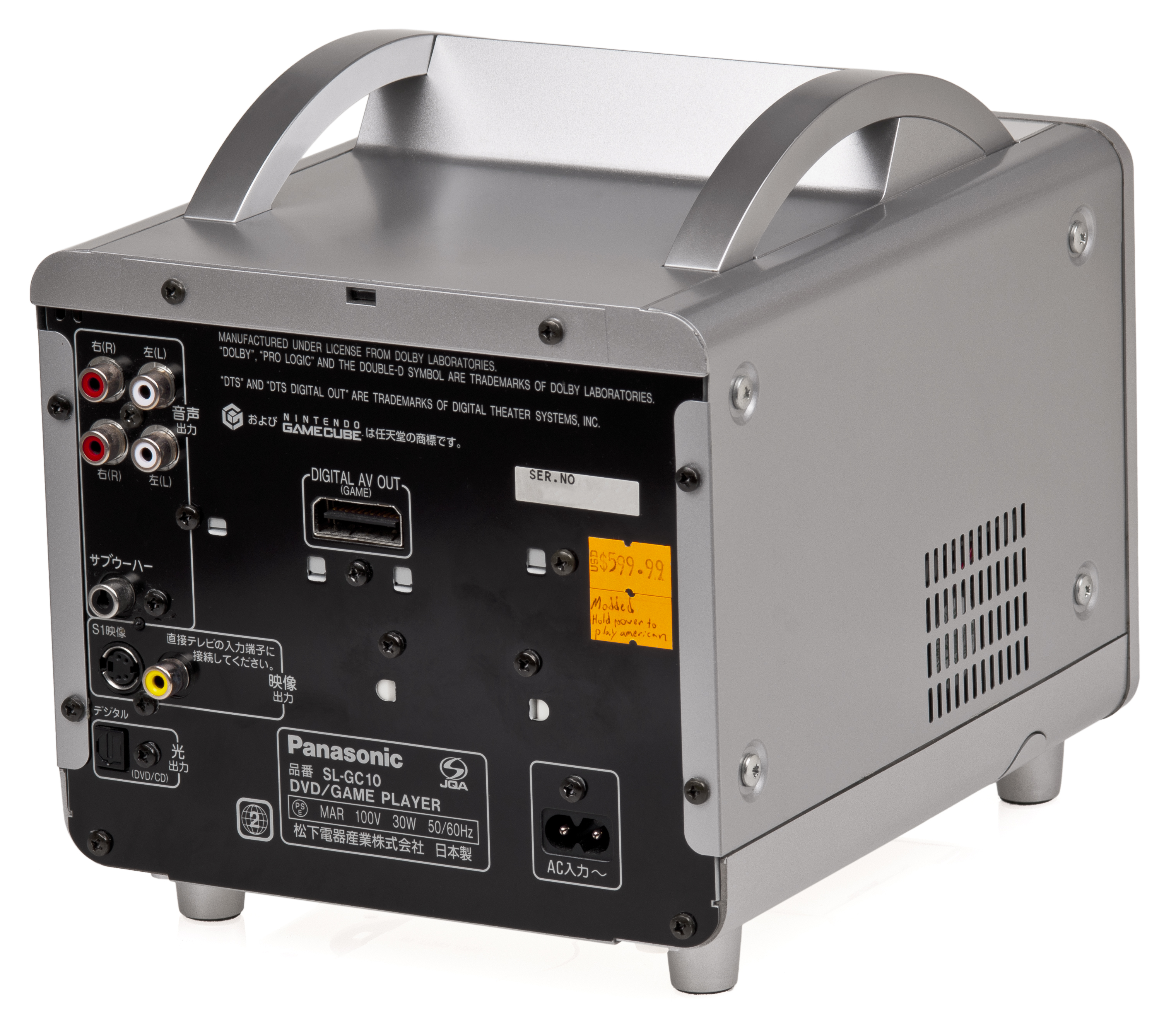 The back of a Japanese Panasonic Q video game console, which plays DVDs and GameCube games.